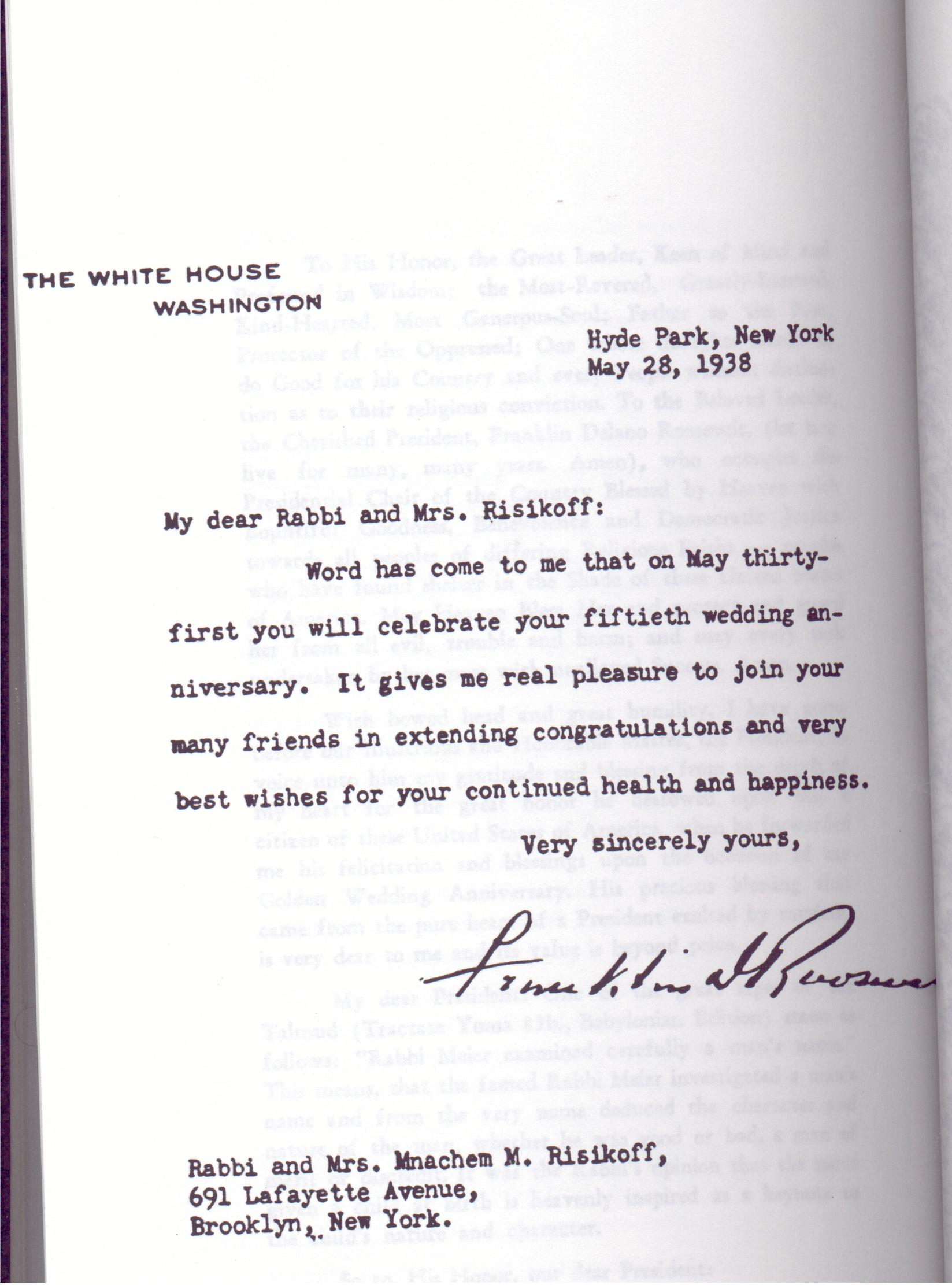 Official U.S. White House/Presidential letter, from President Franklin Delano Roosevelt to Rabbi Mnachem Risikoff, congratulating the rabbi on his 50th wedding anniversary, May 28, 1938